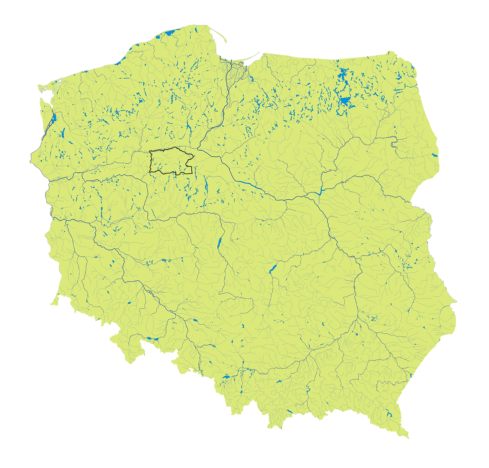 Location of Pałuki region in Poland on hydrographic map.